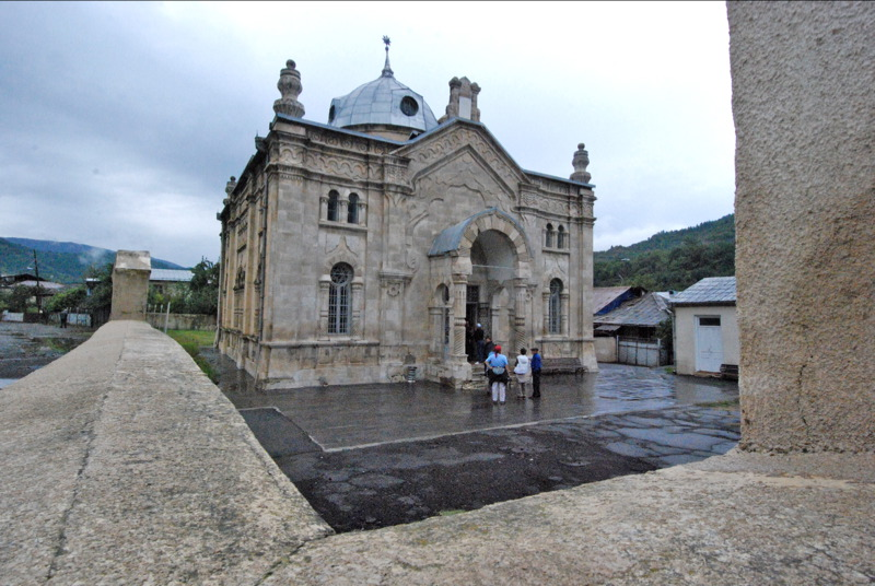 The Synagogue in Oni Georgia